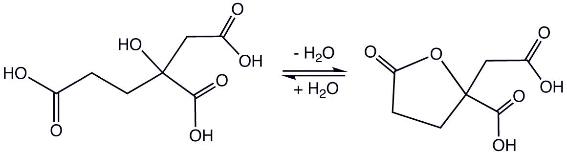 structure of homocitric acid and its lactone derivative